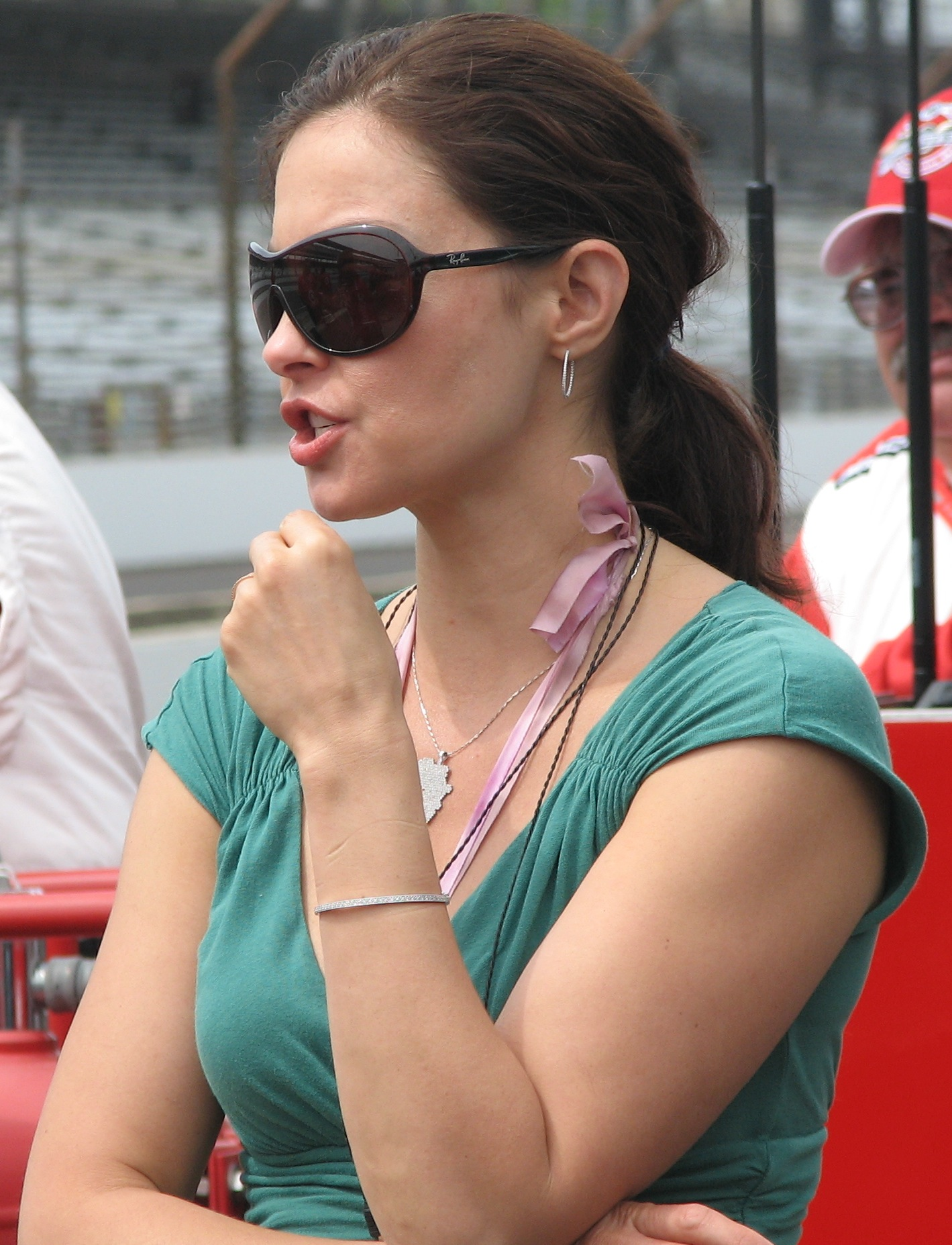 Ashley Judd at the Indianapolis Motor Speedway for the second day of qualifications for the 2009 Indianapolis 500.